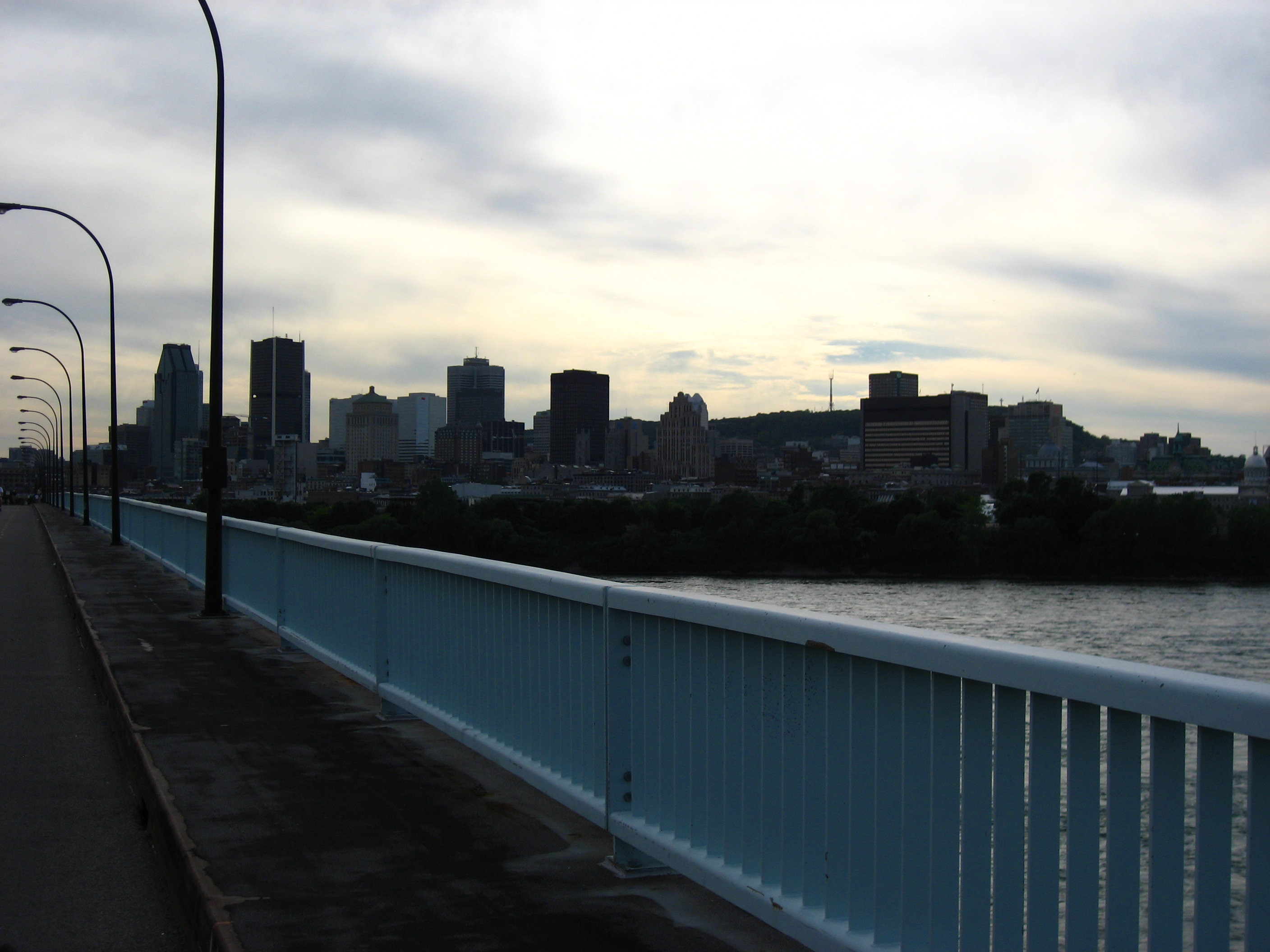 Montreal as seen from the Concorde Bridge